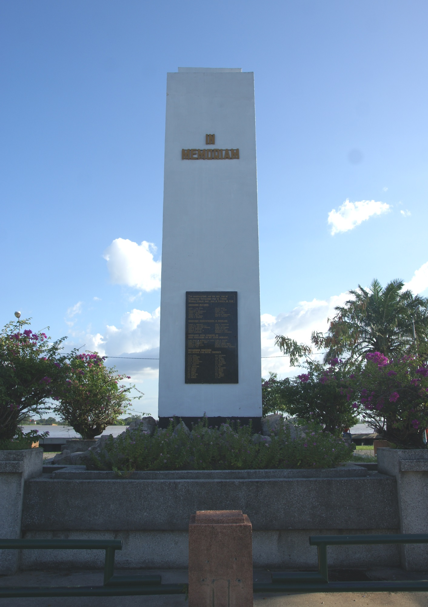 Monument voor de Gevallenen, Onafhankelijkheidsplein, Paramaribo, Surinam. By Ch. Nieleveld, 1950.